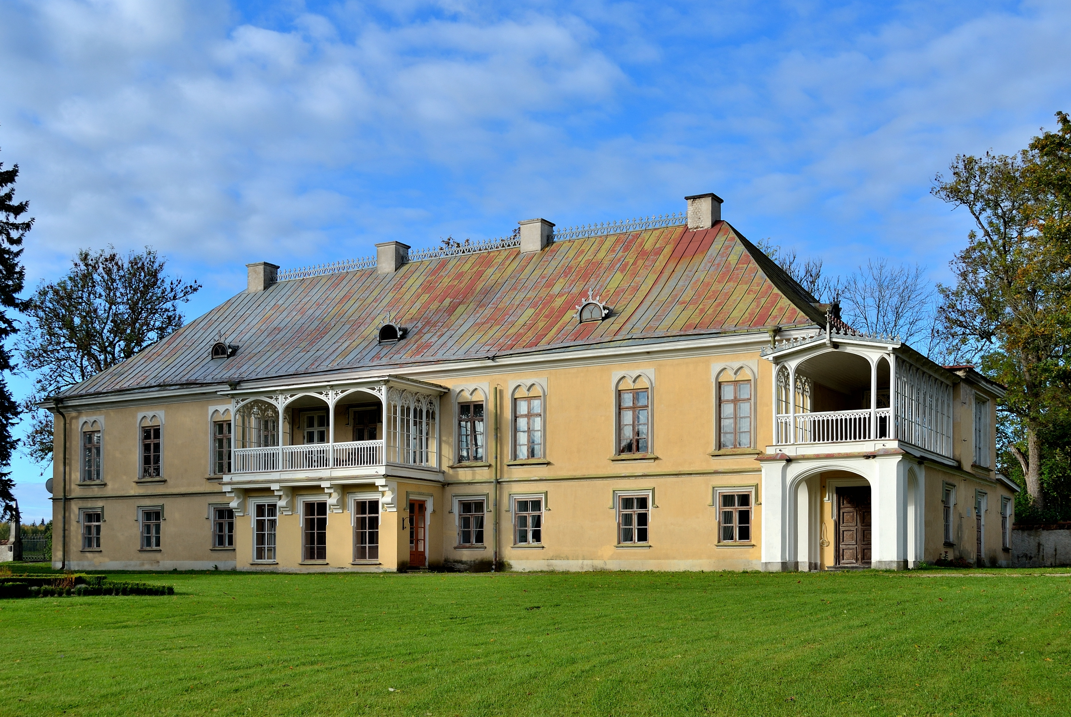 Lohu manor main building. Probably built during the second half of the 18th century.